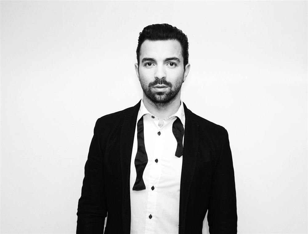 Hafid Sour, danseur, chorégraphe et acteur français contemporain.